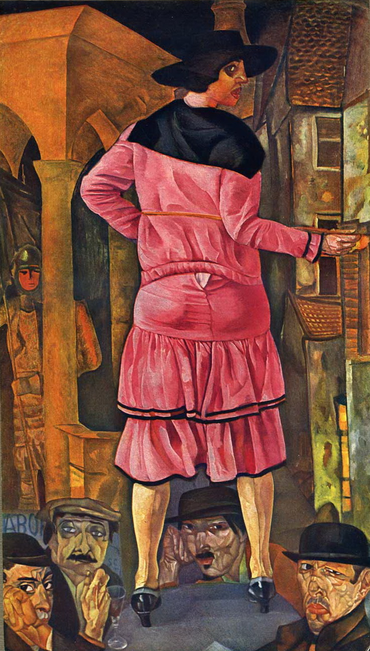 Street of Blondes